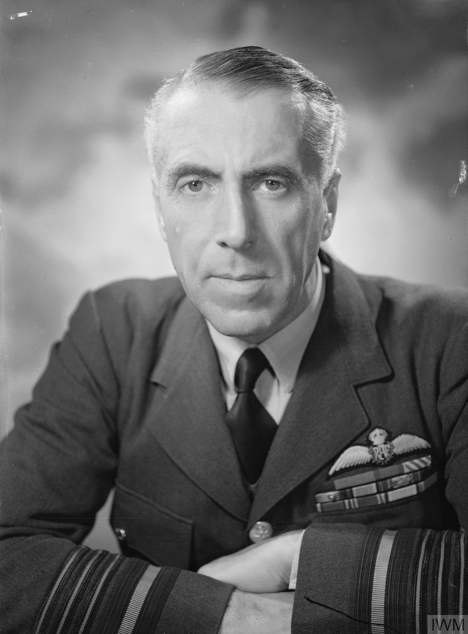 The War in the Far East- the Burma Campaign 1941-1945 British Personalities: Air Chief Marshal Sir Richard Peirse, Air Officer Commanding Allied Air Forces in South East Asia.